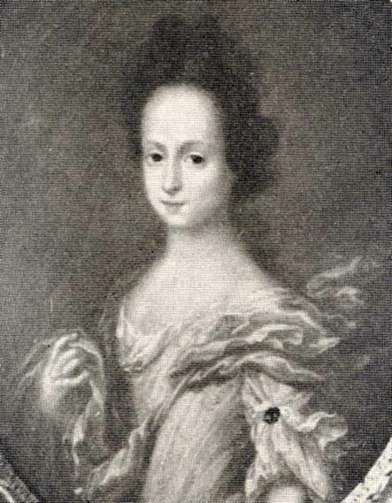 Hedwig Sophia of Holstein-Gottorp (1681-1708), daughter of King Carl XI of Sweden